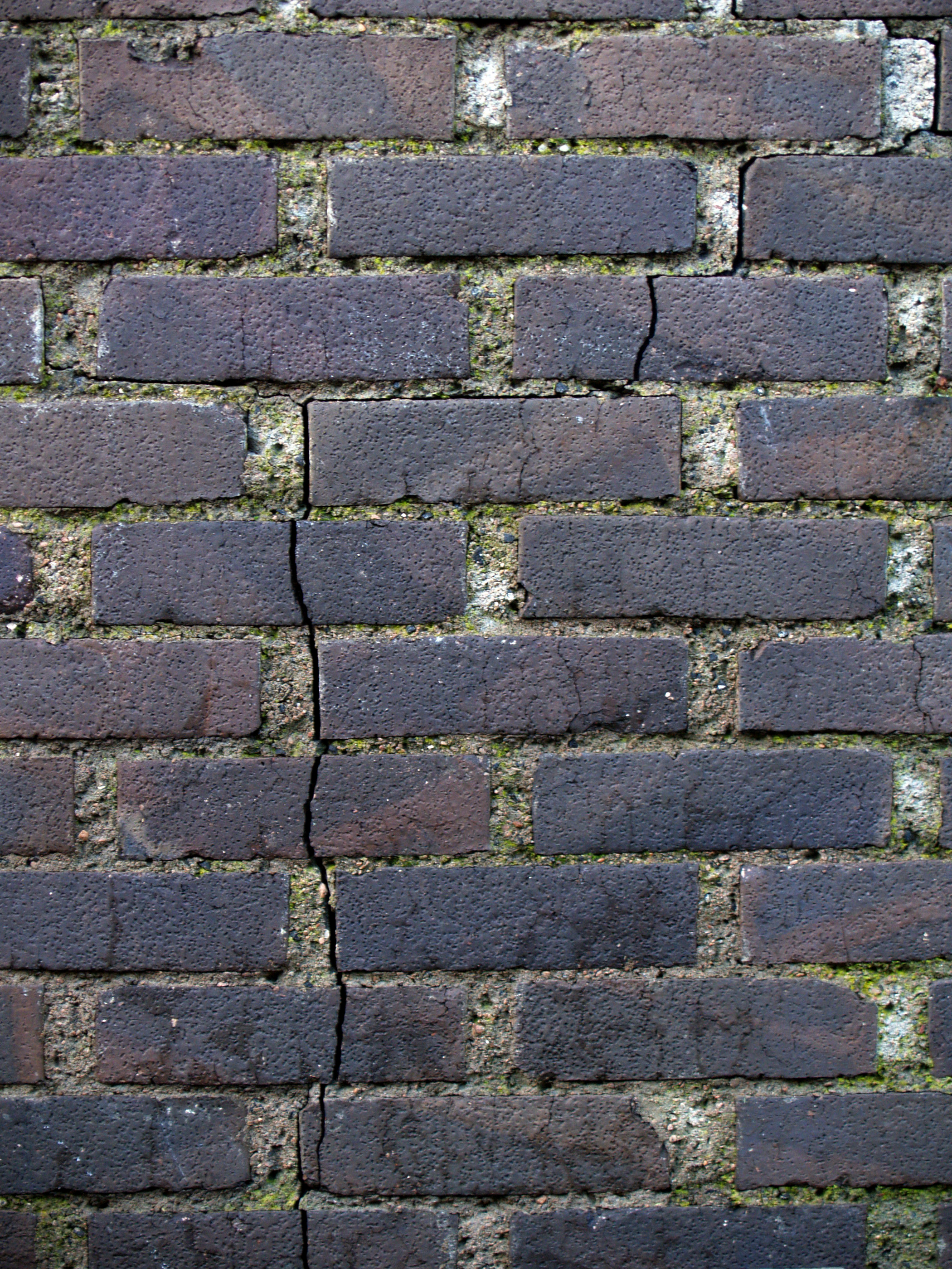 st petri church, klippan, 1962-1966. architect: sigurd lewerentz, 1885-1975. lewerentz used a mortar that was stronger than his bricks. the inevitable cracks in the masonry follow paths as idiosyncratic as those walked by the architect. the lewerentz set.